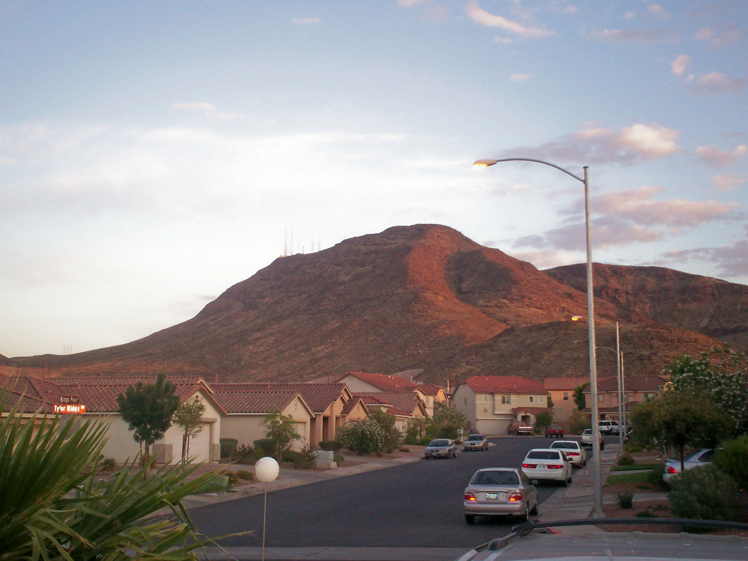 A view of "Black Mountain" above Henderson, Nevada. While not the actual Black Mountain, which lies a little South, this unnammed mountain is one of the more prominent of those in the Mccullough Range and its peak is the site of much of the radio and television transmission towers for the Las Vegas metropolitan area. Picture taken right outside the door of my Henderson home.